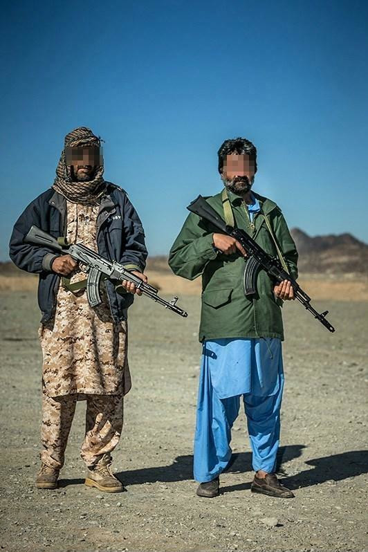 IRGC Ground Force Commandos in Pictures - TEHRAN (Tasnim) – Special unit of the Islamic Revolutionary Guard Corps (IRGC) Ground Force include skillful handpicked members.